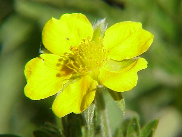 Species: Potentilla fulgens Family: Rosaceae Image No. 1